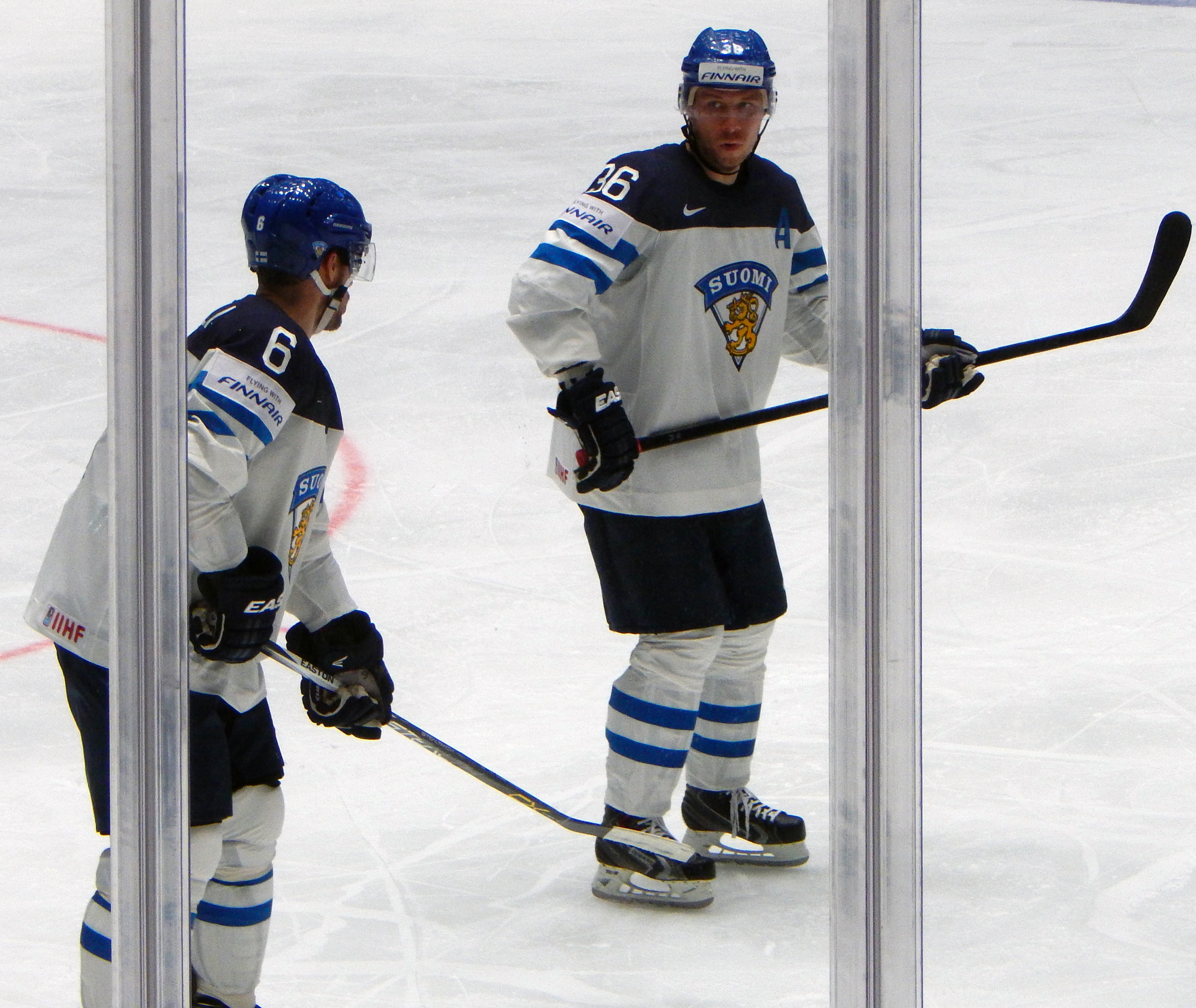 Alternate captains of Team Finland Topi Jaakola (#6) and Jussi Jokinen (#36) during the game FIN v BLR of the 2016 IIHF World Championship in Saint Petersburg, Russia.